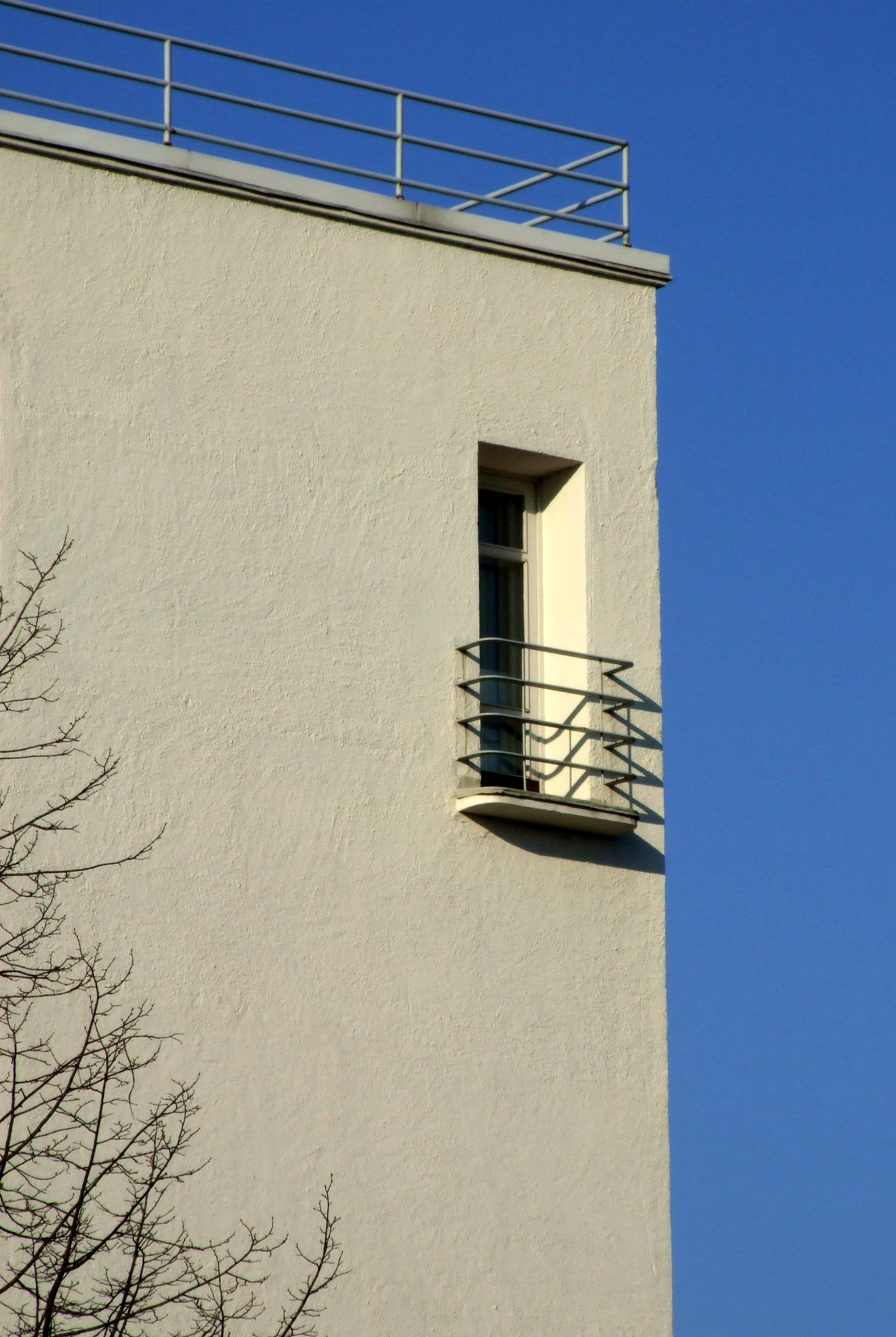 Balcony of the former SOK Cooperative's Office Building.